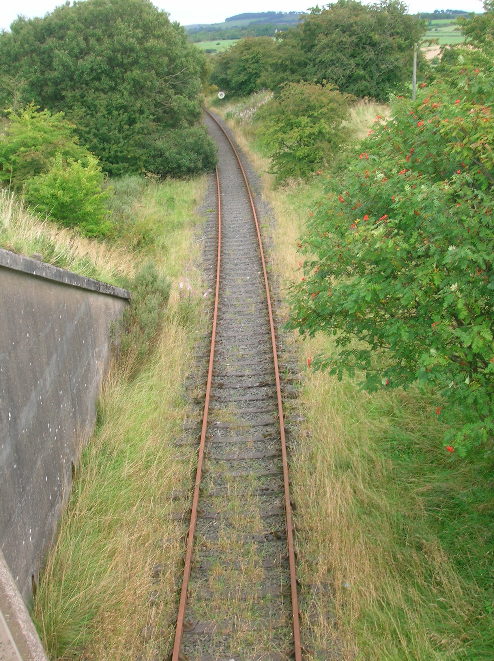 The railway at Gree Bridge looking towards Barmill, Lugton, Aurshire, Scotland.